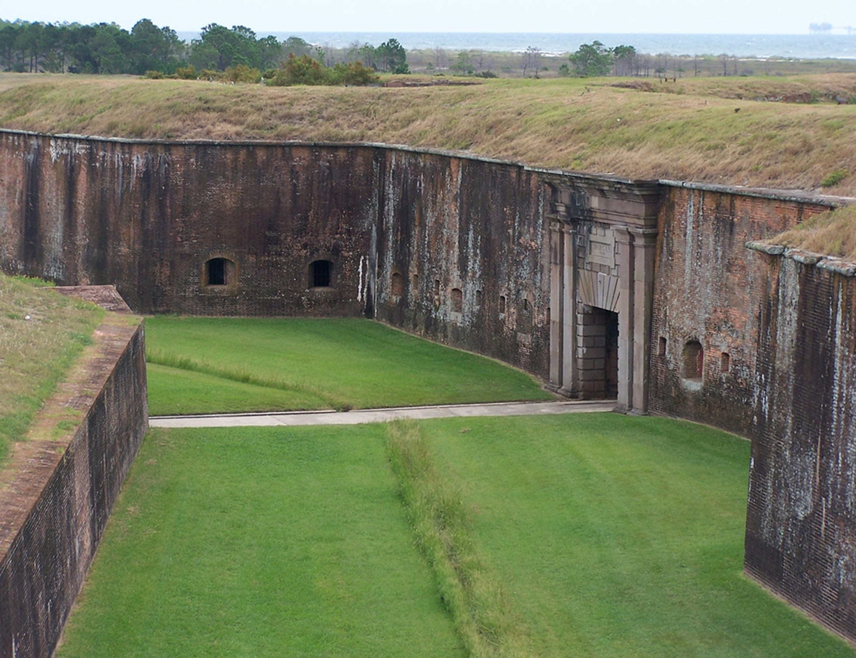 The entrance to Fort Morgan, on the Gulf of Mexico in southern Baldwin County, Alabama.